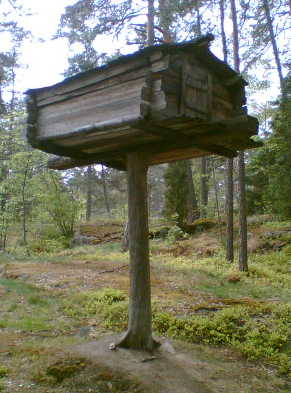 Tree store hut. Used against wild animals in Seurasaari, Helsinki, Finland.